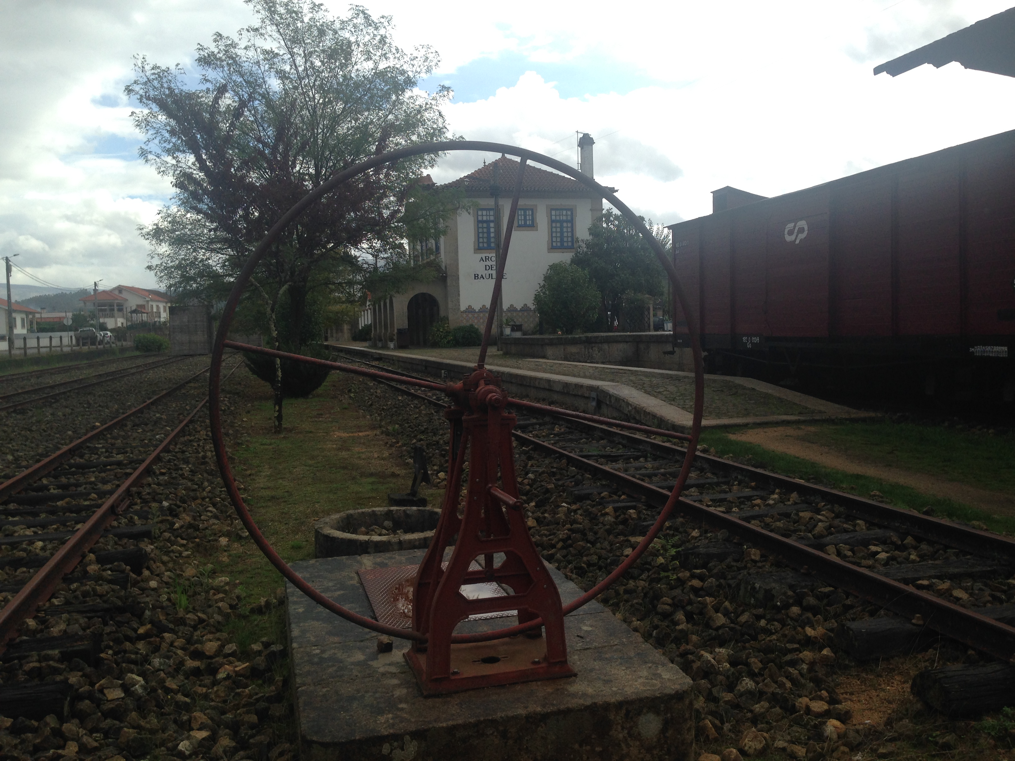 Estação de Arco de Baúlhe